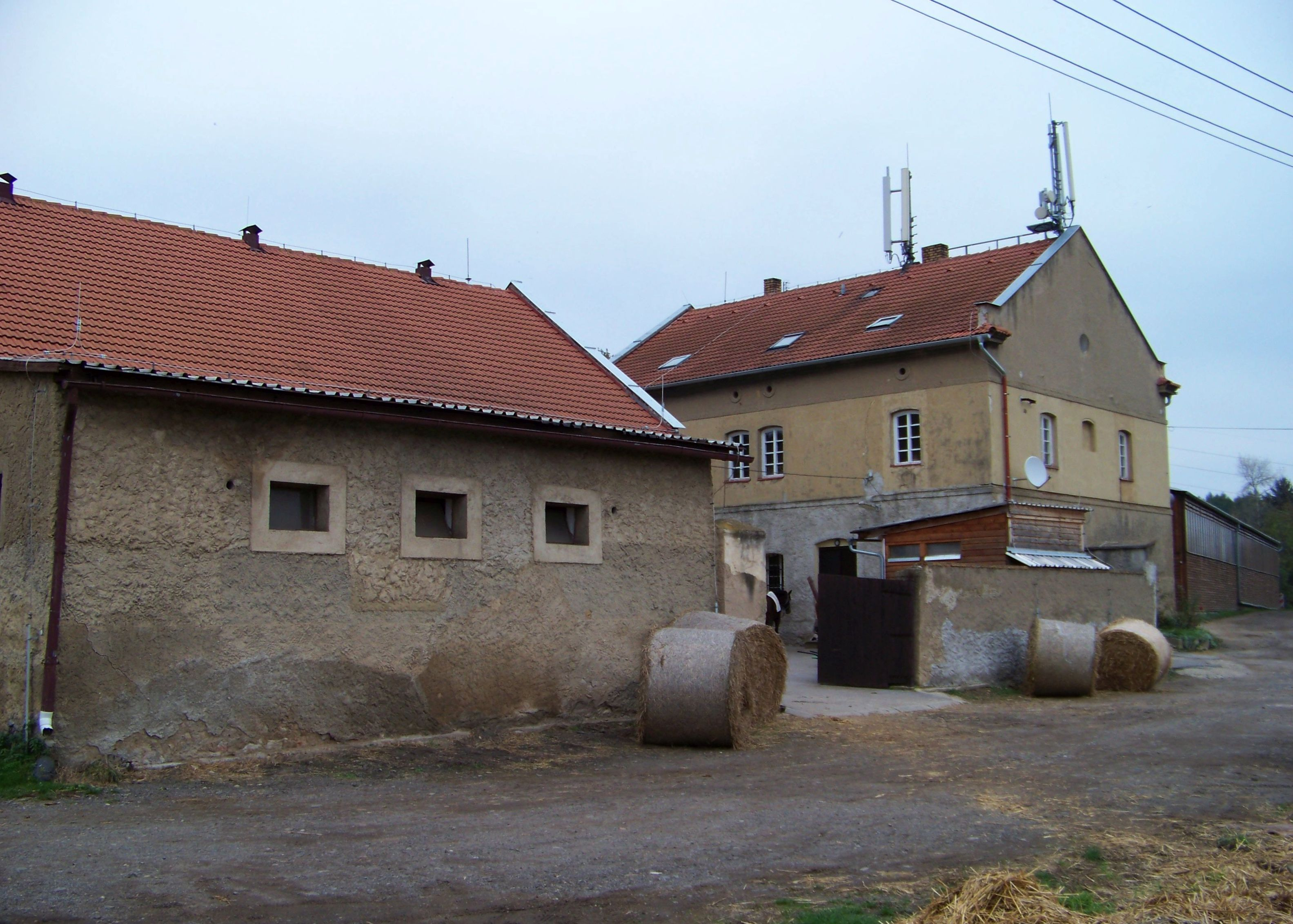 U Gabrielky 49, Gabrielka, Nebušice, Prague, Czech Republic.